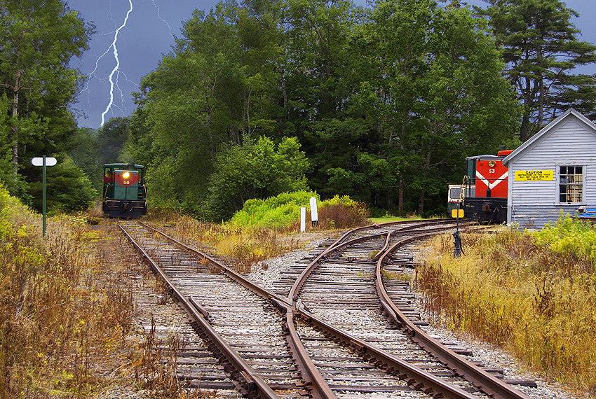 BML#50 heading inland on the Belfast and Moosehead Lake Railroad main line, and BML#53 at the City Point Central Railroad Museum turnout (MP 2.5), Belfast, Maine. Both GE 70-ton diesel electric locomotives, #50 was purchased new by the B&ML in 1946, and #53 was acquired used in 1970 from the Montpelier & Barre Railroad in Vermont. Digital composite illustration created by the original uploader.